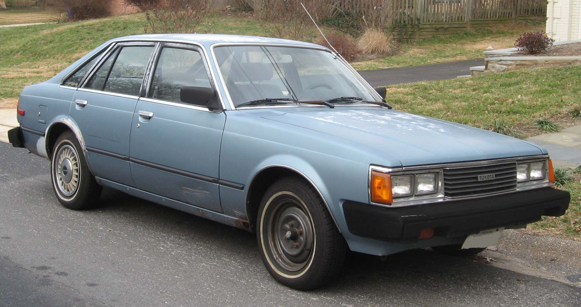 1981-1982 Toyota Corona Luxury Edition photographed in Kensington, Maryland, USA.